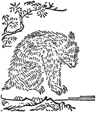 Mujina (ムジナ, a shapeshifting badger) from the Wakan Sansai Zue (和漢三才図会)